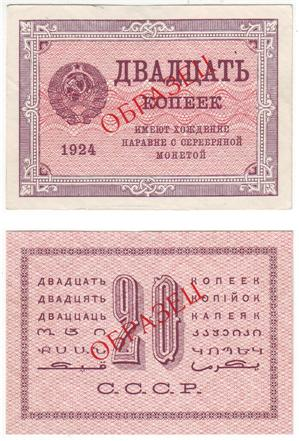 20 kopeek 1924 Specimen